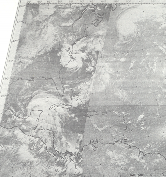 Composite of ESSA 2 photographs, September 17, 1967, showing Beulah (over the northern Yucatán Peninsula), Doria (over the North Carolina coast), and Chloe (southeast of Newfoundland).